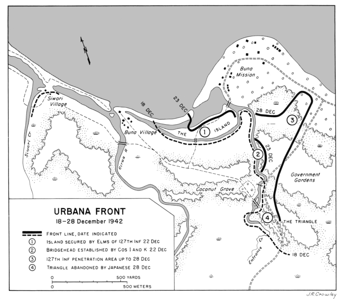 USA-P-Papua-14 Map 14 milner18-28 December 1942 .jpg